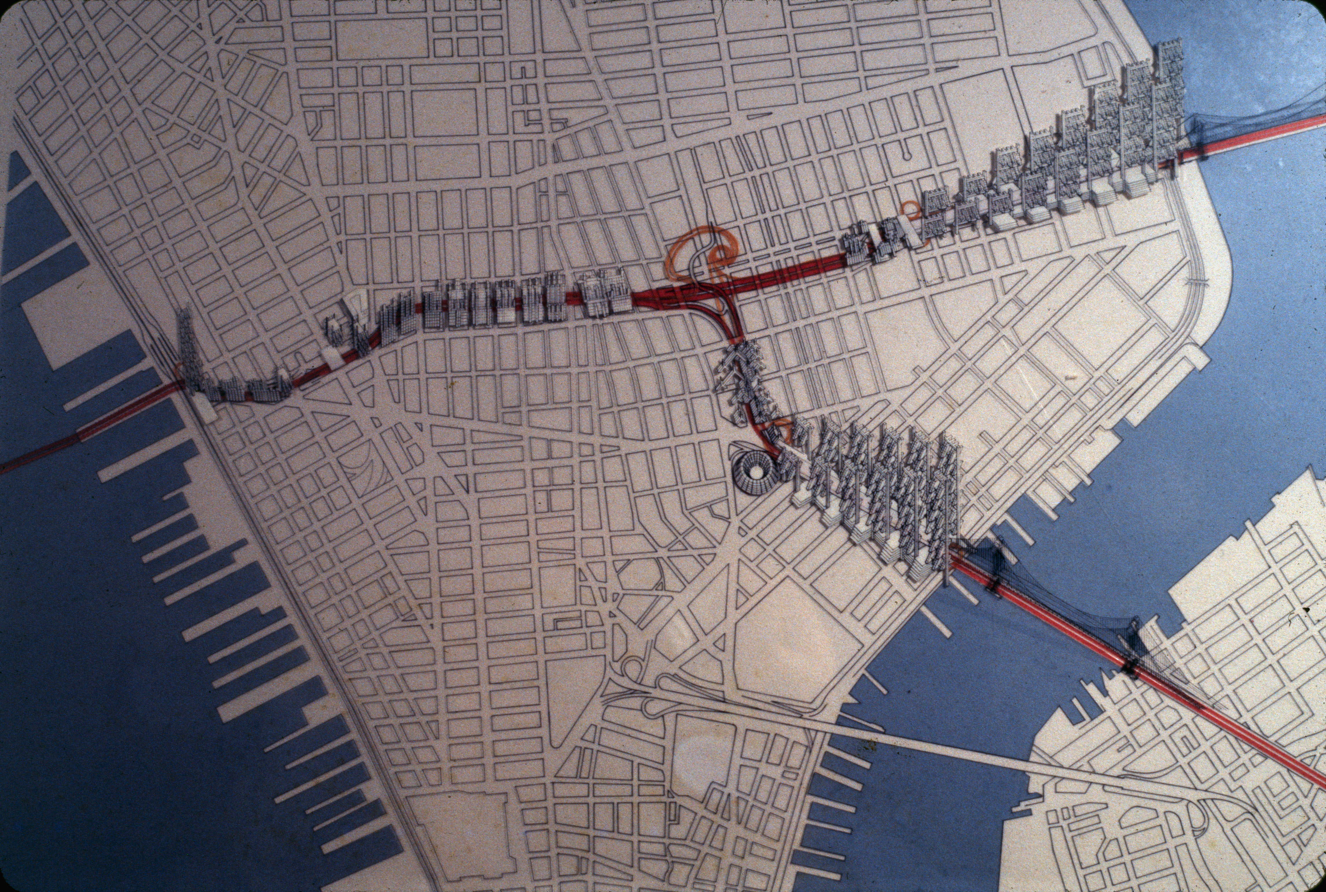 Planned route of the Lower Manhattan Expressway. Courtesy Library of Congress (